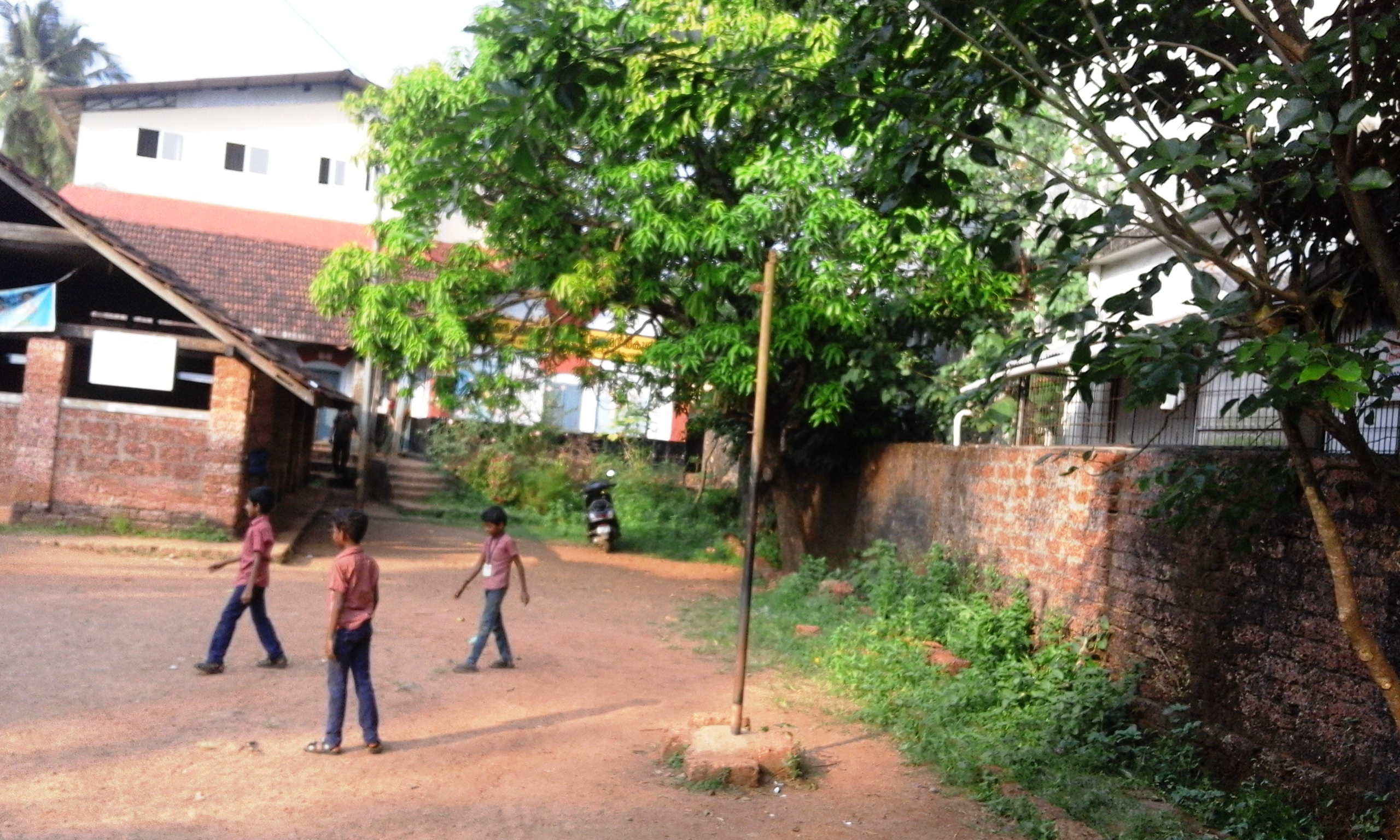 Balussery, Kozhikode District, Kerala Province, India.